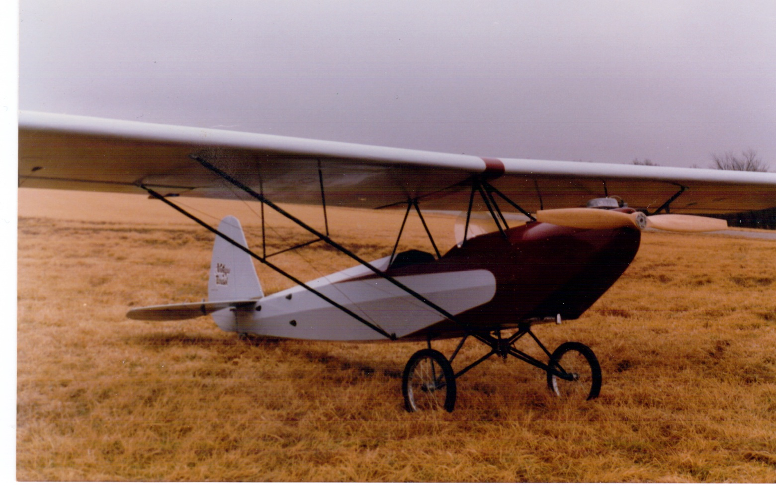 Full front view of Aerotique Parasol